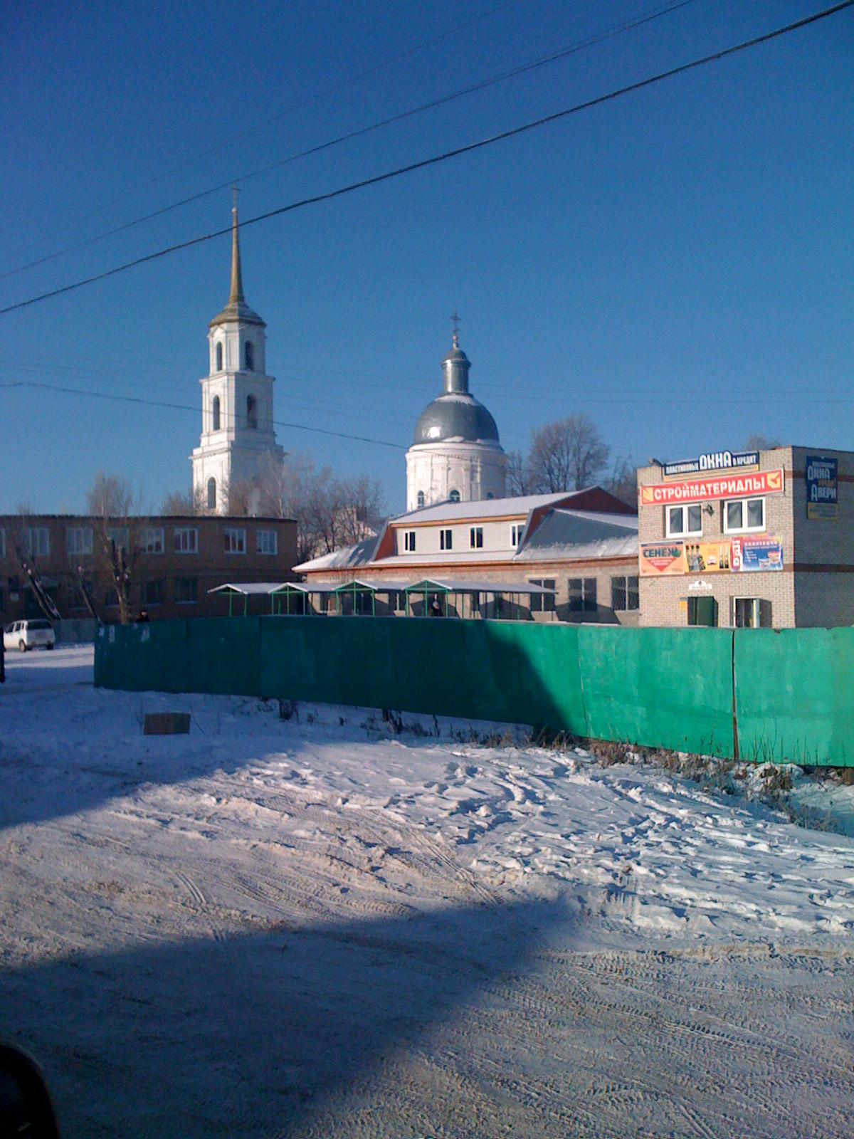 Tuma city, Ryazan Oblast, Russia